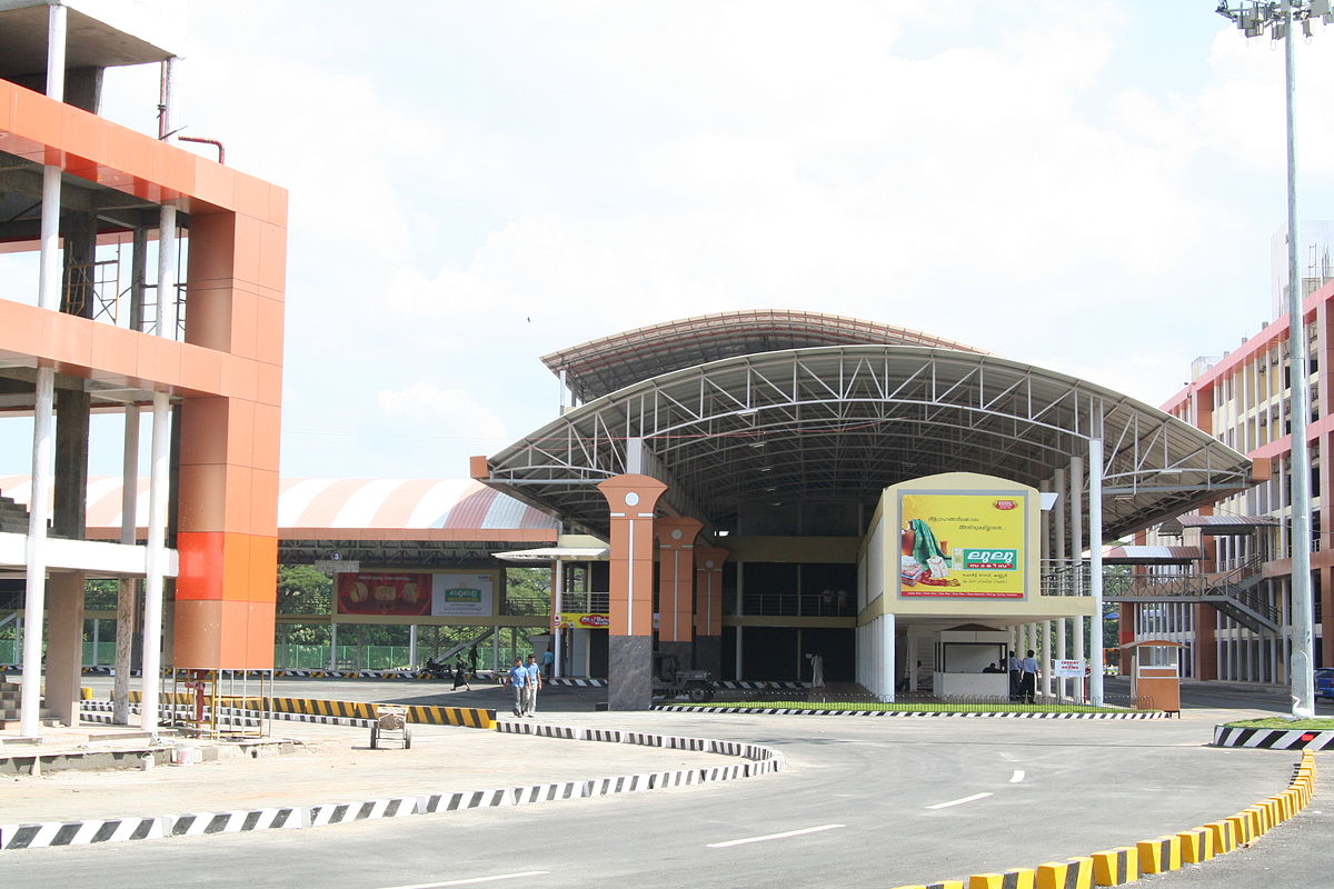 New Bus Stand